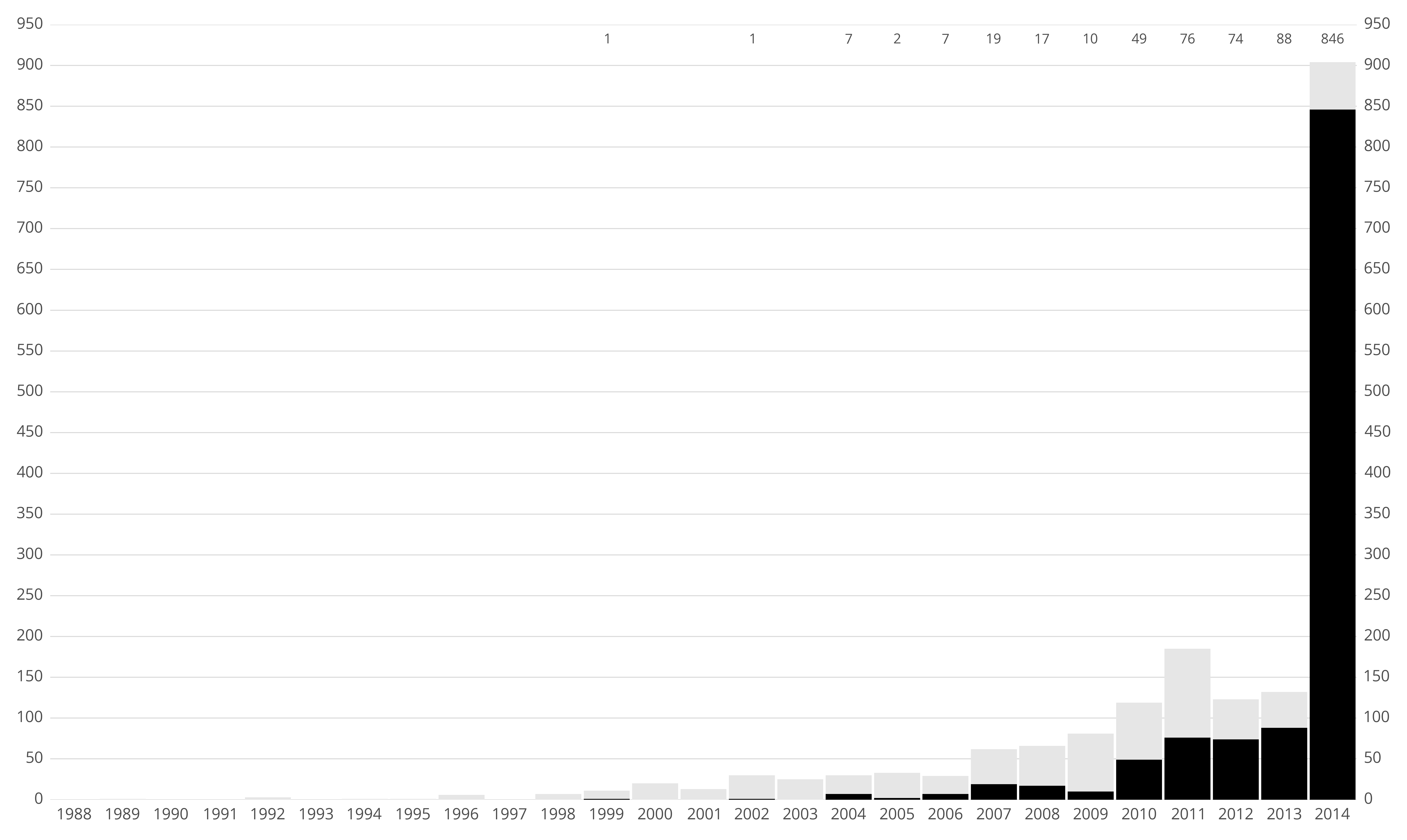 Bar chart of exoplanet discoveries by year, through 2015-01-01, indicating planets detected using transits in black and those detected using other methods in light gray. Exoplanet data is from the Open Exoplanet Catalogue,[1] version 298ee46 ↑ Open Exoplanet Catalogue (2015-02-04). Retrieved on 2015-04-07.